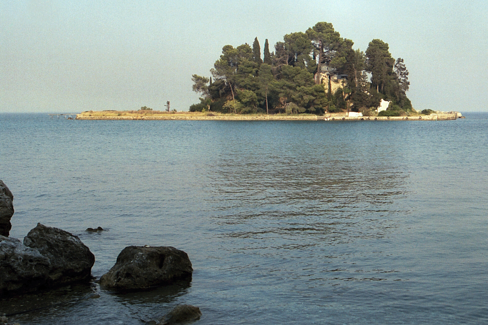 "Mouse Island", alias "The Fossilised ship of Phaeaces (Phaíakes, Φαίακες)". Corfu, at the farther end of airport runway.